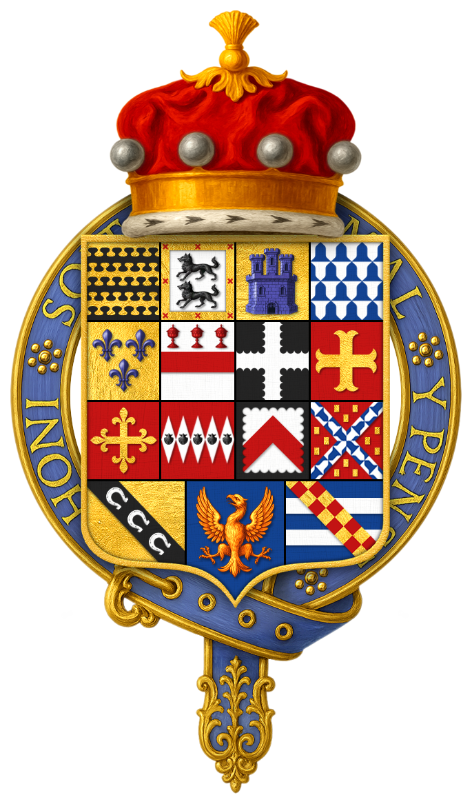 Coat of arms of Sir Charles Blount, 8th Baron Mountjoy, KG